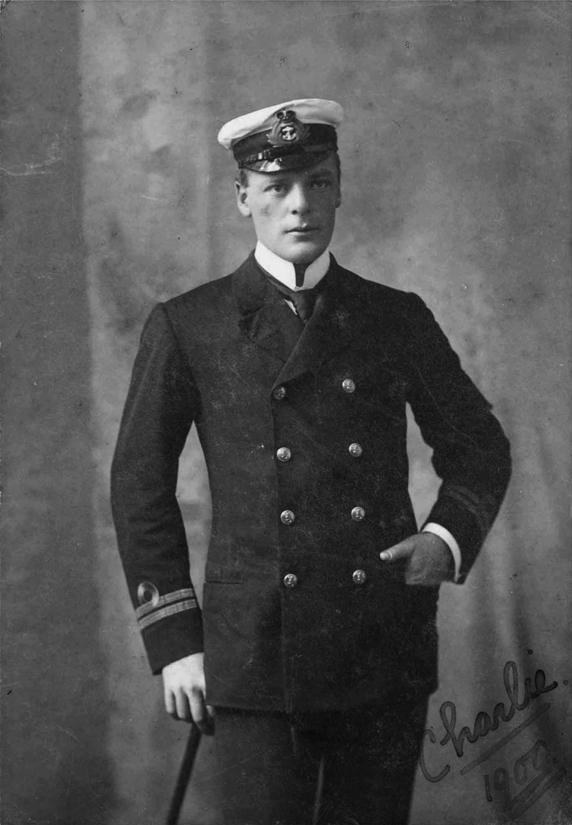 Charles William Rawson Royds (1876-1931) British National Antarctic Expedition (1901-1904) approx 14 x 10 cm signed: Charlie / 1900